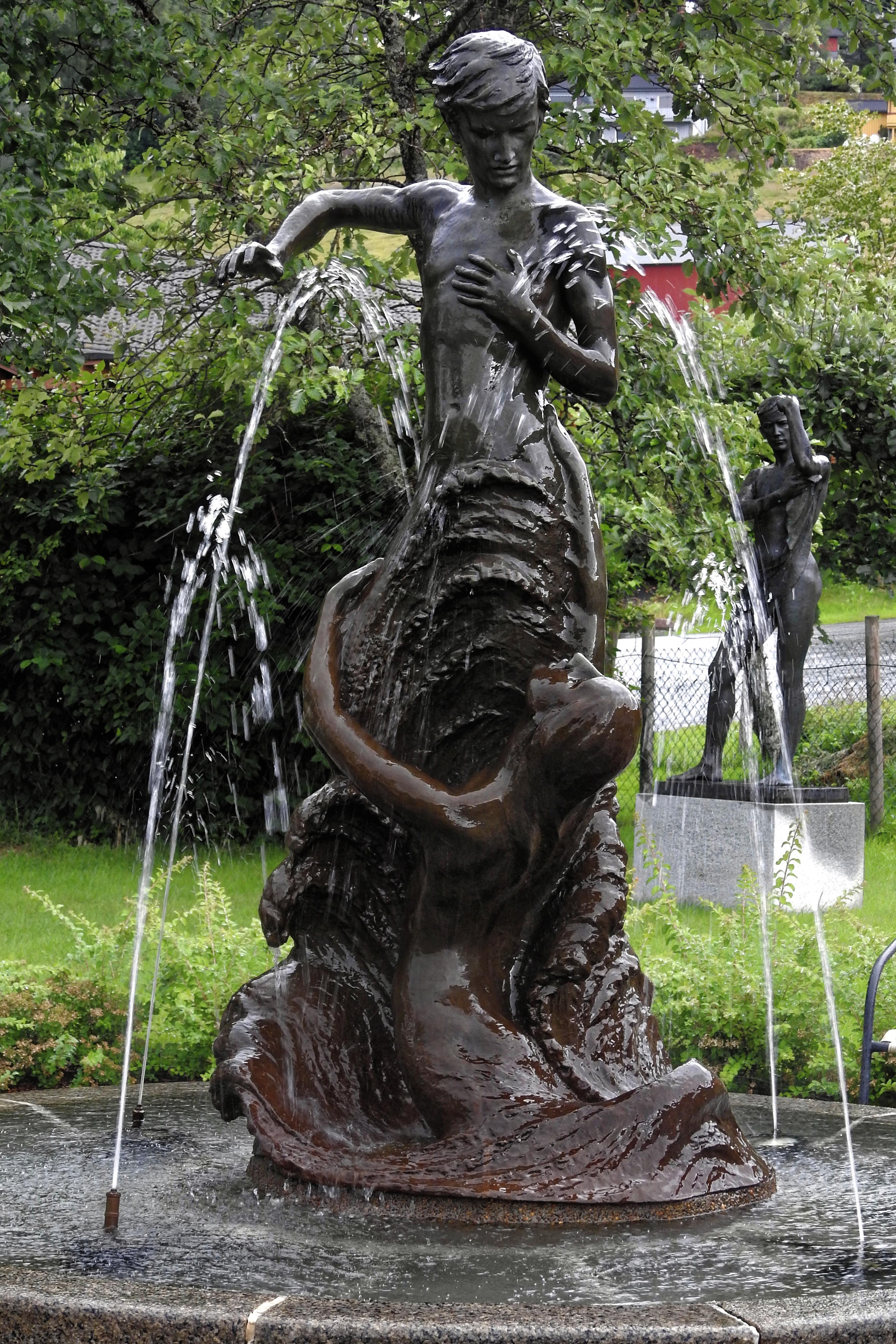 The Norwegian sculptor Anders Svor.